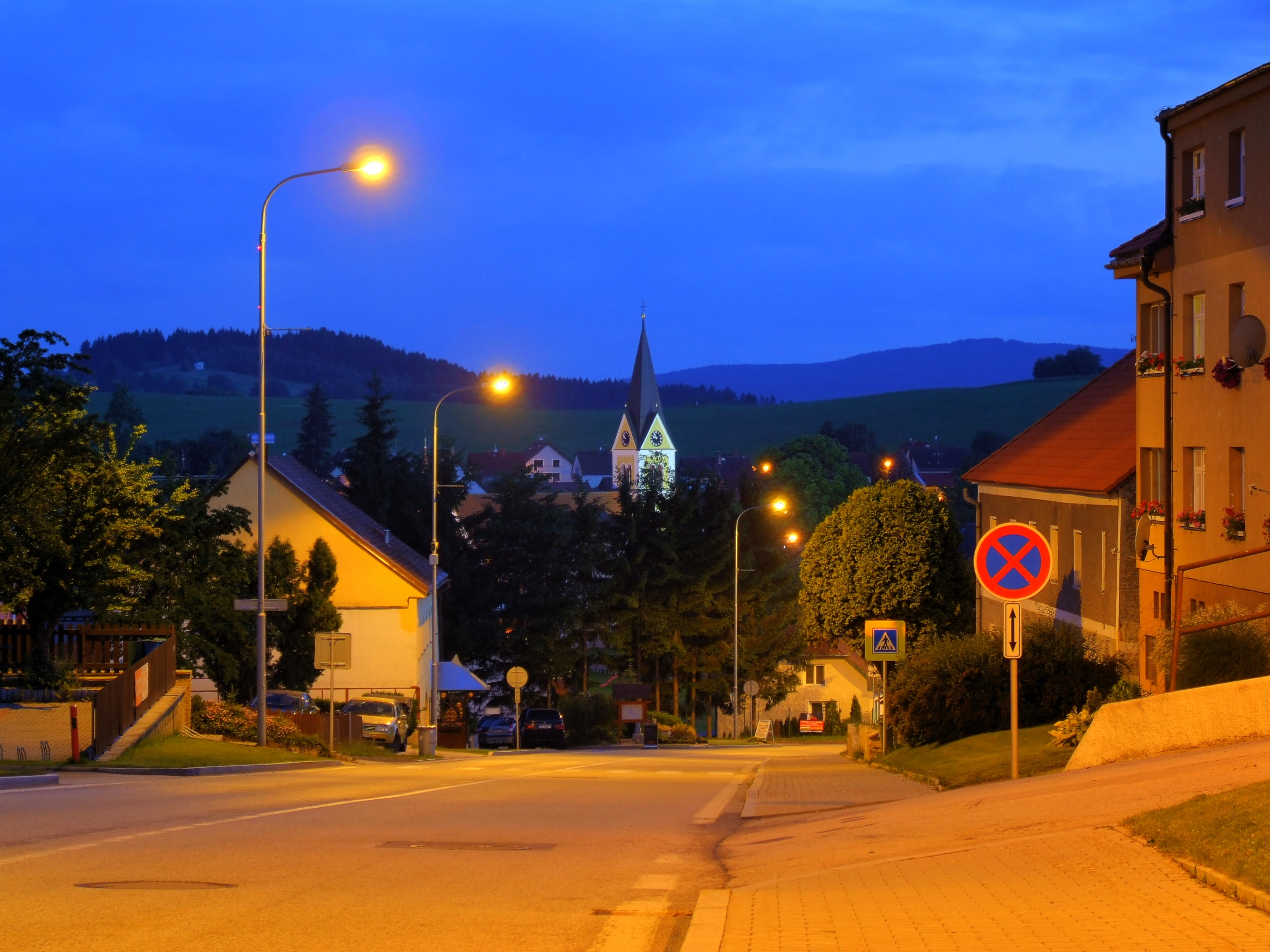 Černá v Pošumaví (Schwarzbach) by night